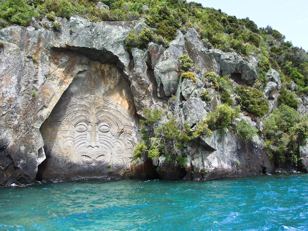 Maori rock carvings at Mine Bay on Lake Taupō, over 10 metres high and are only accessible by boat or kayak.